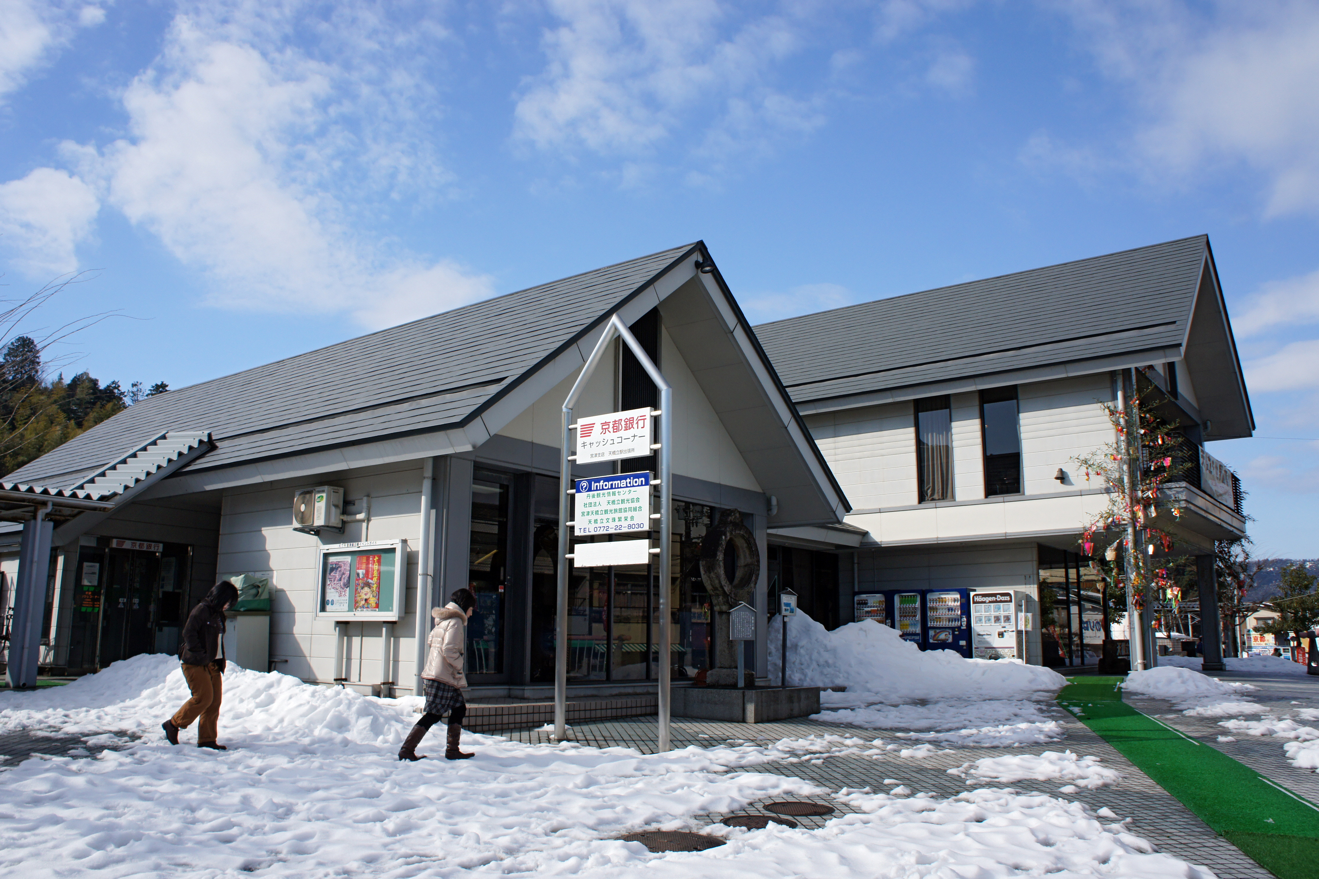 Amanohashidate Station in Miyazu, Kyoto prefecture, Japan.